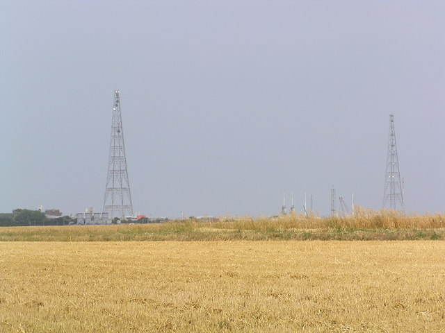 Bacton Gas terminal in rural setting